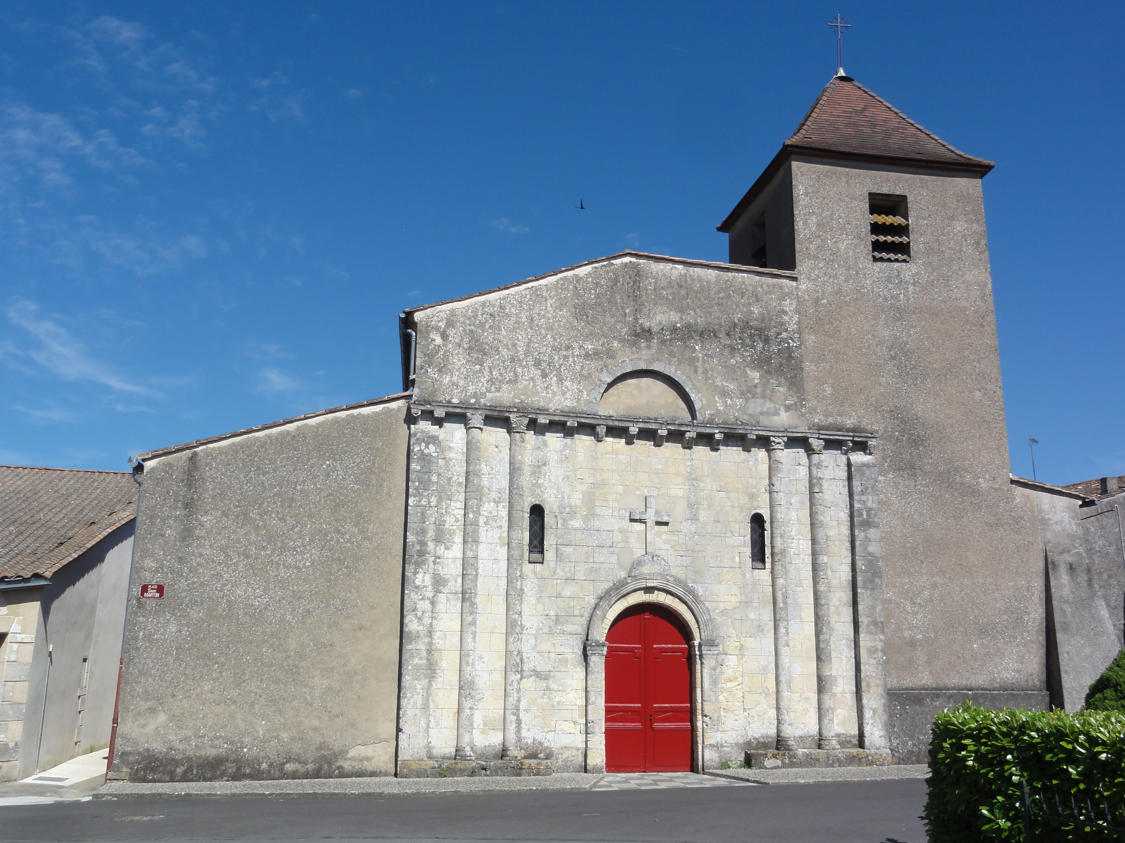 Anglade (Gironde) église, façade